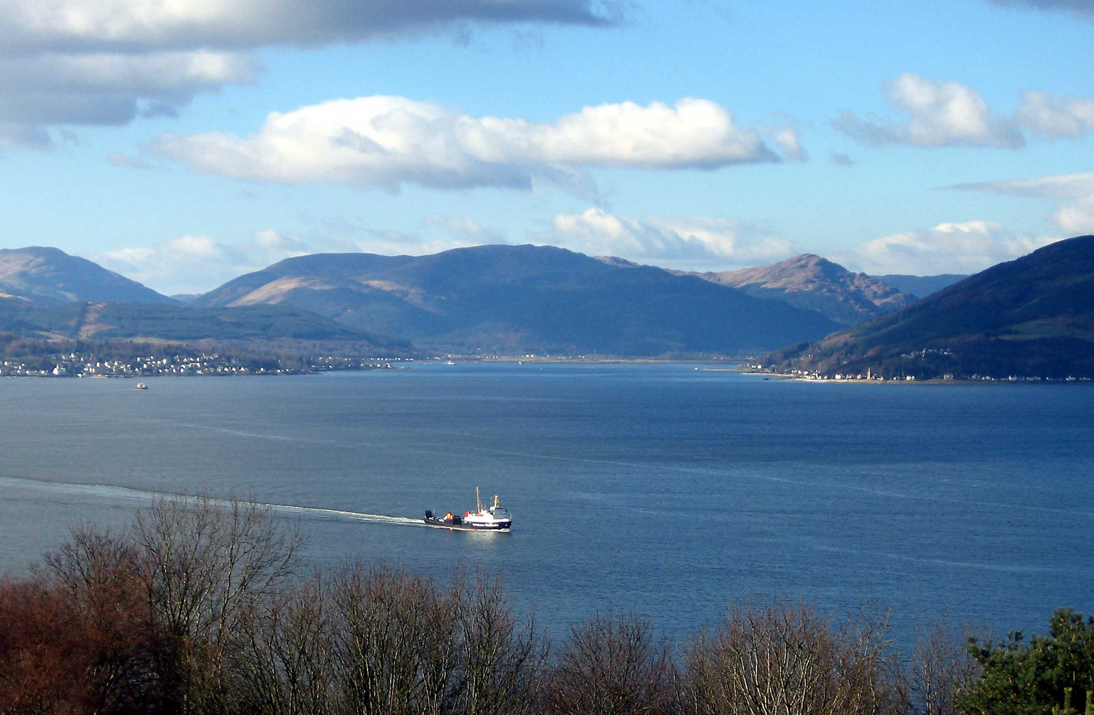 The Holy Loch seen from Tower Hill, Gourock across the Firth of Clyde in Scotland, with the ferry MV Saturn crossing from Dunoon. photograph taken ion 20 February 2006 by User:Dave souza. Any re-use to contain this licence notice and to attribute the work to User:Dave souza at Wikipedia.